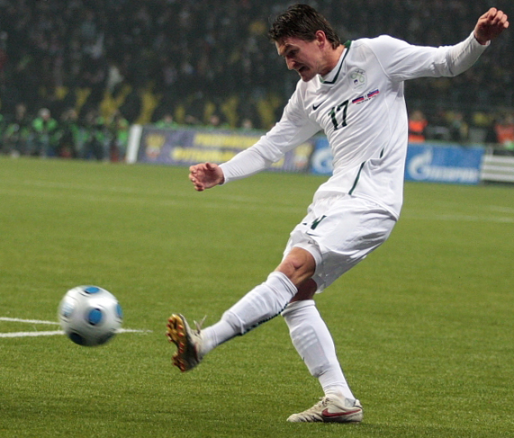 Russia vs Slovenia World Cup 2010 Qualification, 2009-11-14